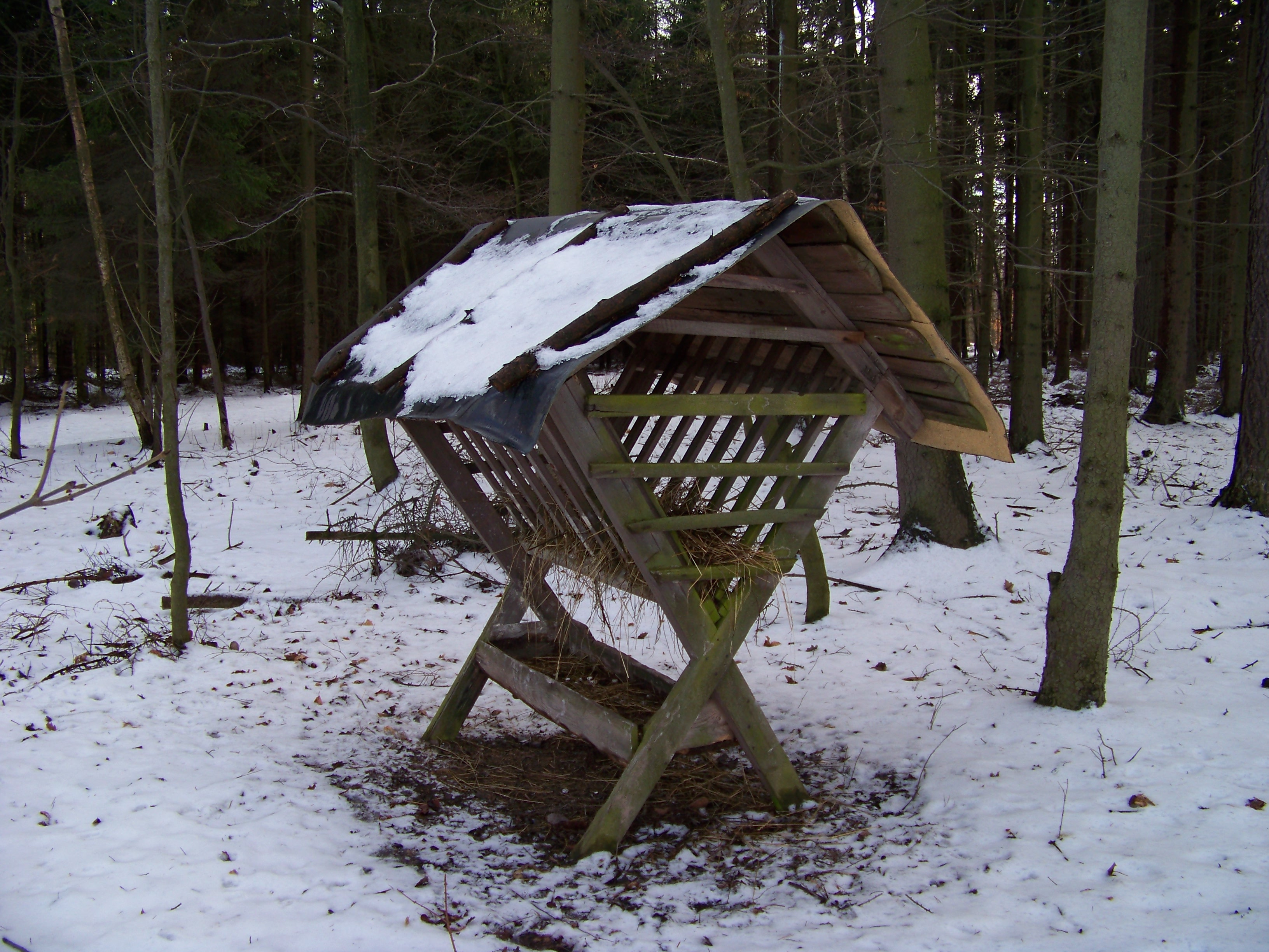 Mutějovice, Rakovník District, the Czech Republic.